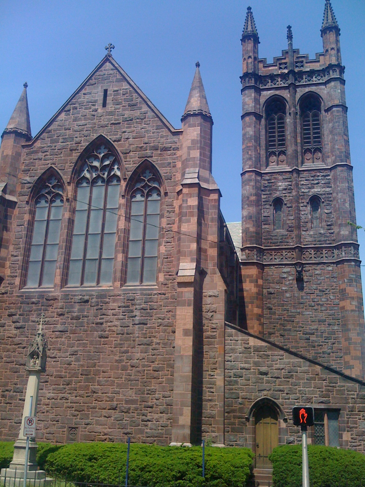 This photograph of christ church is released to the public domain by me the photographer. According to US copyright law I am the sole holder of rights to the image of this building in a public place. Additionally the architect has been deceased for more than 90 years (1917).